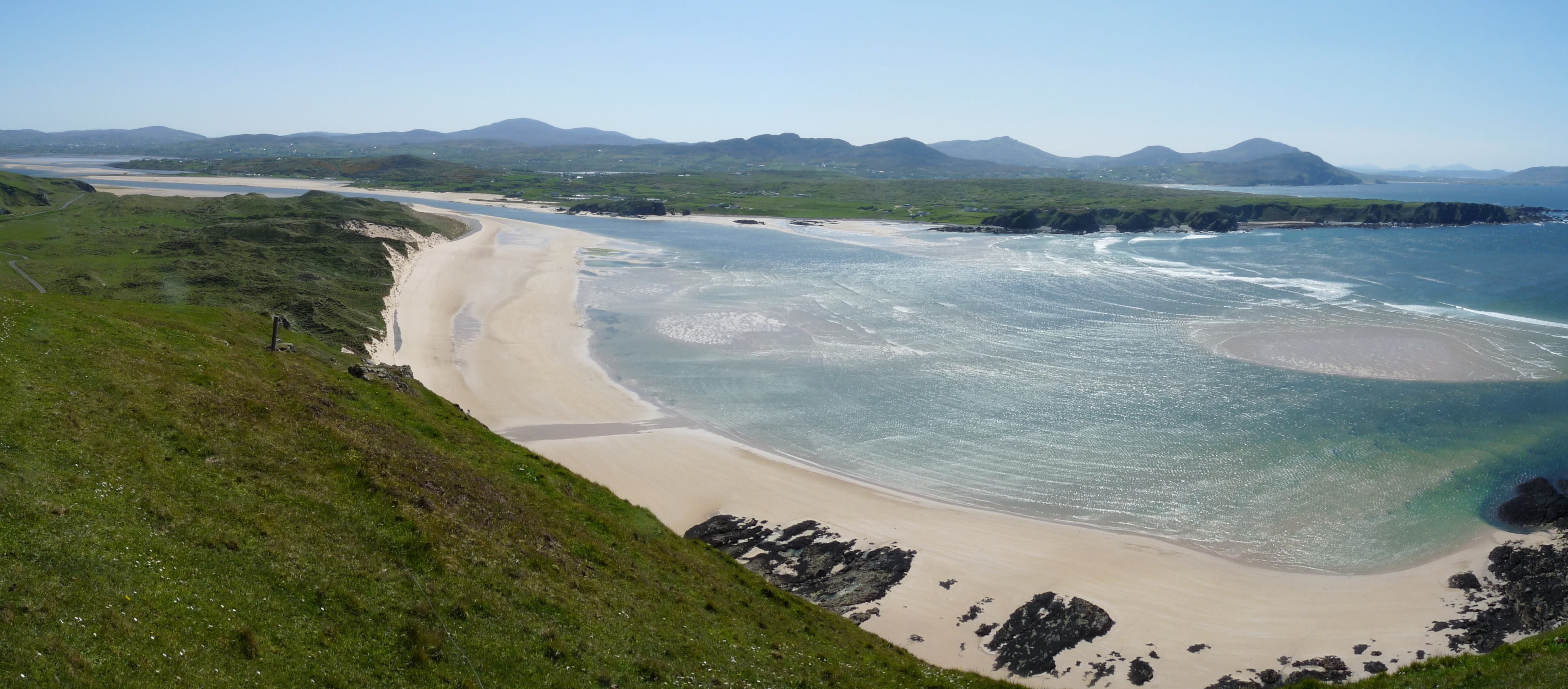 Trawbreaga Stitch 02